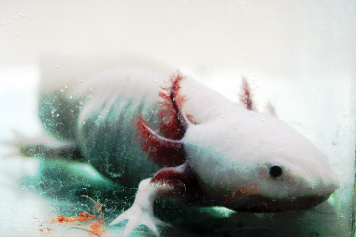 An albino axolotl in captivity in my own tank.